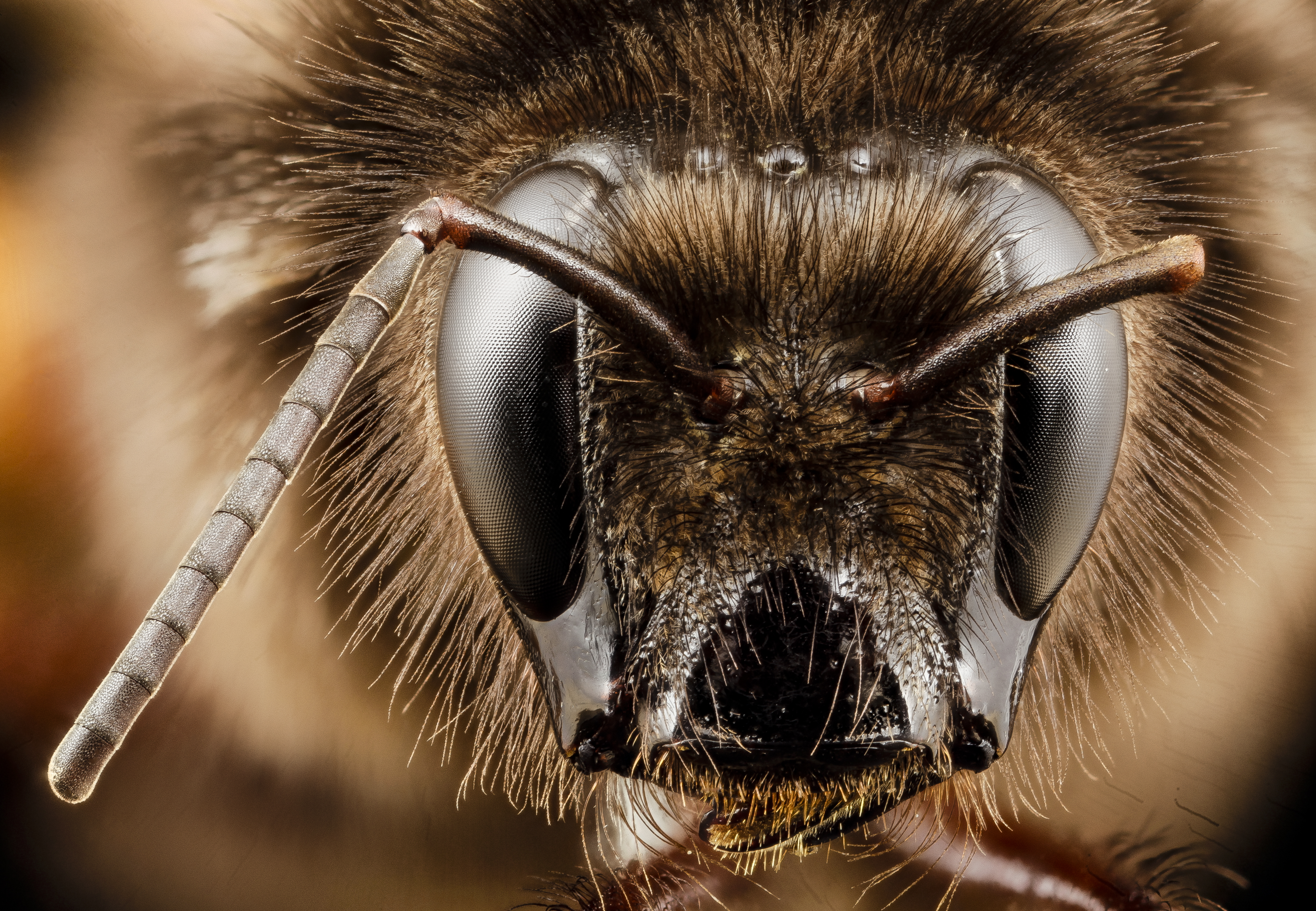 A lovely slightly florescent orange bumble bee from Taiwan. So many combinations of color and form in each genus of bee! 13:55, 17 November 2014 (UTC)13:55, 17 November 2014 (UTC) 0 13:55, 17 November 2014 (UTC)13:55, 17 November 2014 (UTC) All photographs are public domain, feel free to download and use as you wish. Photography Information: Canon Mark II 5D, Zerene Stacker, Stackshot Sled, 65mm Canon MP-E 1-5X macro lens, Twin Macro Flash in Styrofoam Cooler, F5.0, ISO 100, Shutter Speed 200 Further in Summer than the Birds Pathetic from the Grass A minor Nation celebrates Its unobtrusive Mass. No Ordinance be seen So gradual the Grace A pensive Custom it becomes Enlarging Loneliness. Antiquest felt at Noon When August burning low Arise this spectral Canticle Repose to typify Remit as yet no Grace No Furrow on the Glow Yet a Druidic Difference Enhances Nature now -- Emily Dickinson Want some Useful Links to the Techniques We Use? Well now here you go Citizen: Basic USGSBIML set up: USGSBIML Photoshopping Technique: Note that we now have added using the burn tool at 50% opacity set to shadows to clean up the halos that bleed into the black background from "hot" color sections of the picture. PDF of Basic USGSBIML Photography Set Up: ftp://ftpext.usgs.gov/pub/er/md/laurel/Droege/How%20to%20Take%20MacroPhotographs%20of%20Insects%20BIML%20Lab2.pdf Google Hangout Demonstration of Techniques: or Excellent Technical Form on Stacking: Contact information: Sam Droege 301 497 5840